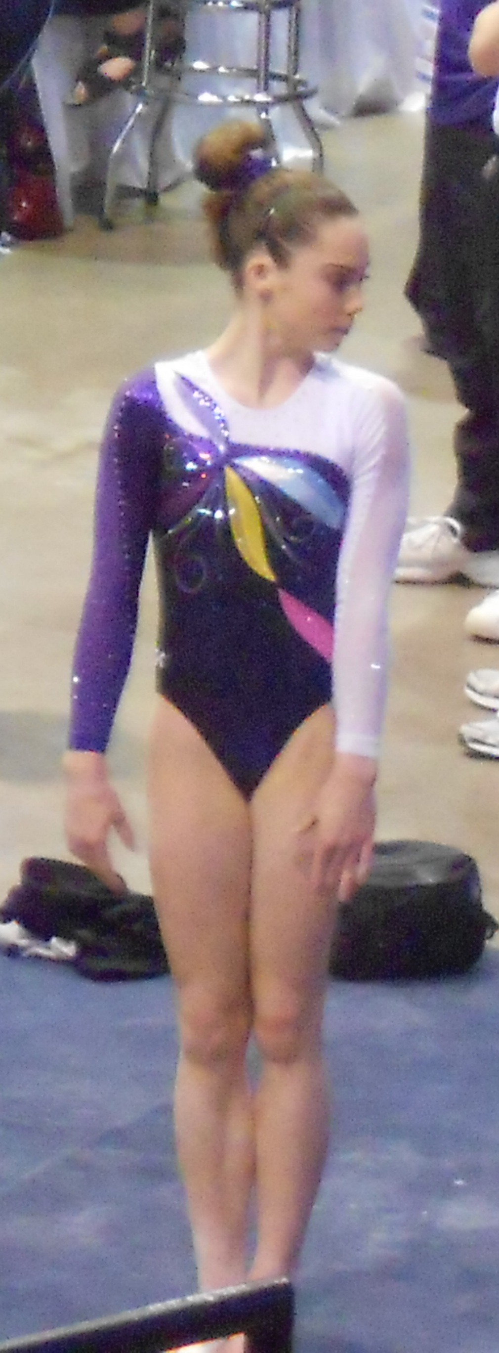 Mckayla Maroney at the 2012 Secret U.S. Classic